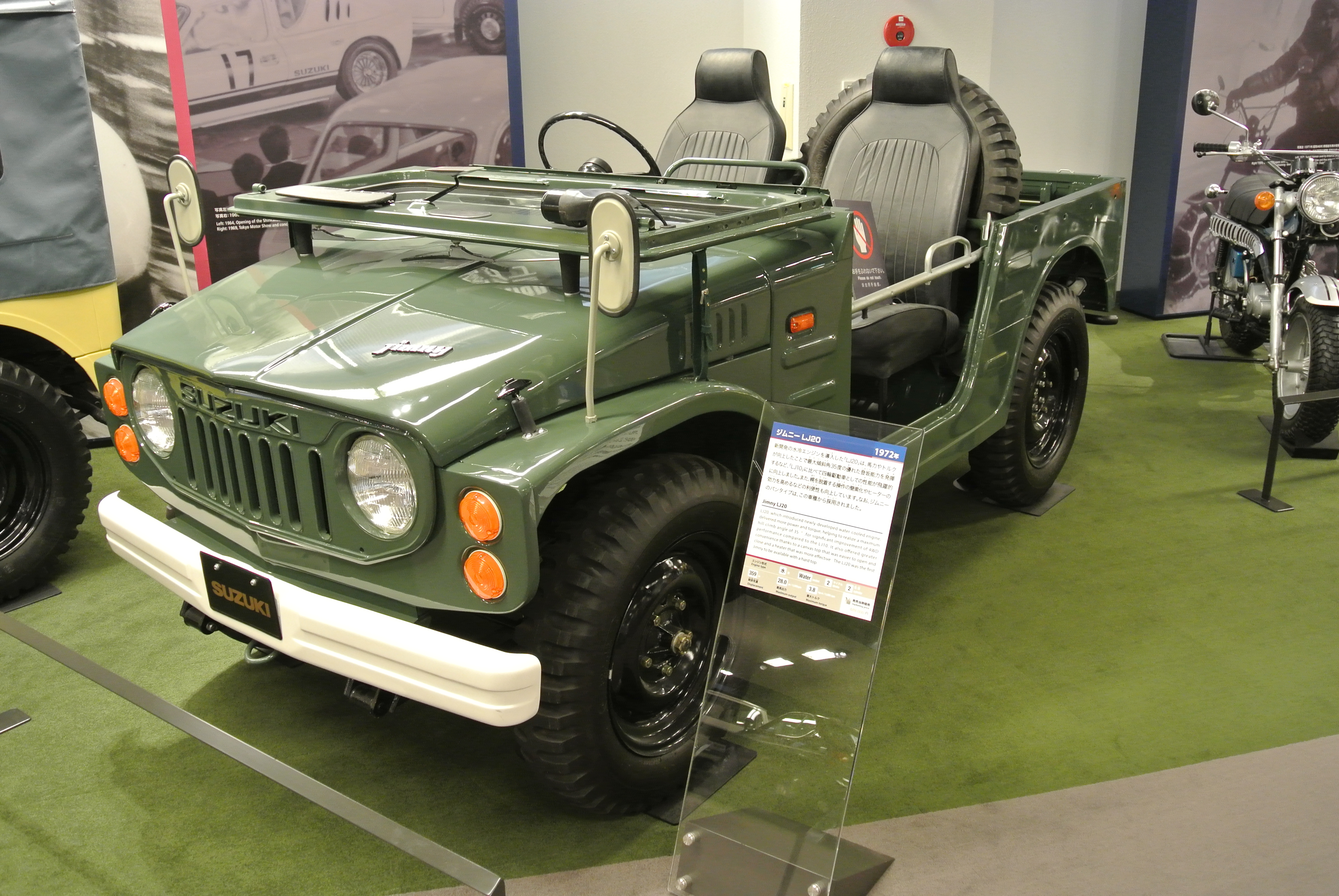 1972 Suzuki Jimny LJ20 in the Suzuki History Museum.